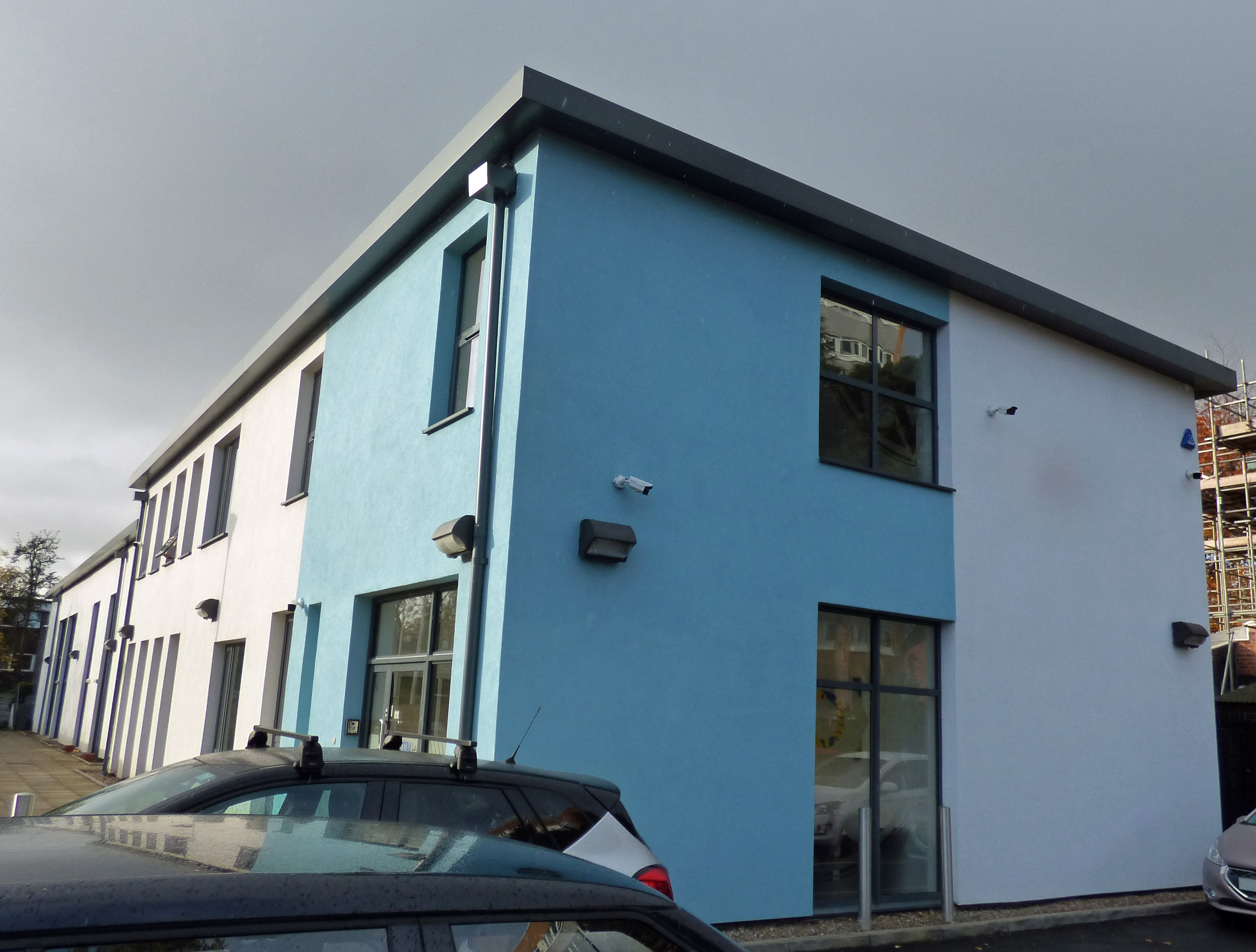 Birmingham Central Synagogue seen during November 2017. Now painted white and sky blue around the main entrance. This view from the small car park at the front. Now also a community centre, with a Kosher Deli shop upstairs. Usually open weekdays and Sunday's (I think). Located at 4 Speedwell Road, Edgbaston. It opened in August 2013.